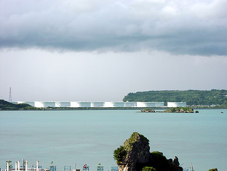 Okinawa CTS(Central Terminal Station including oil storage tanks and refineries)